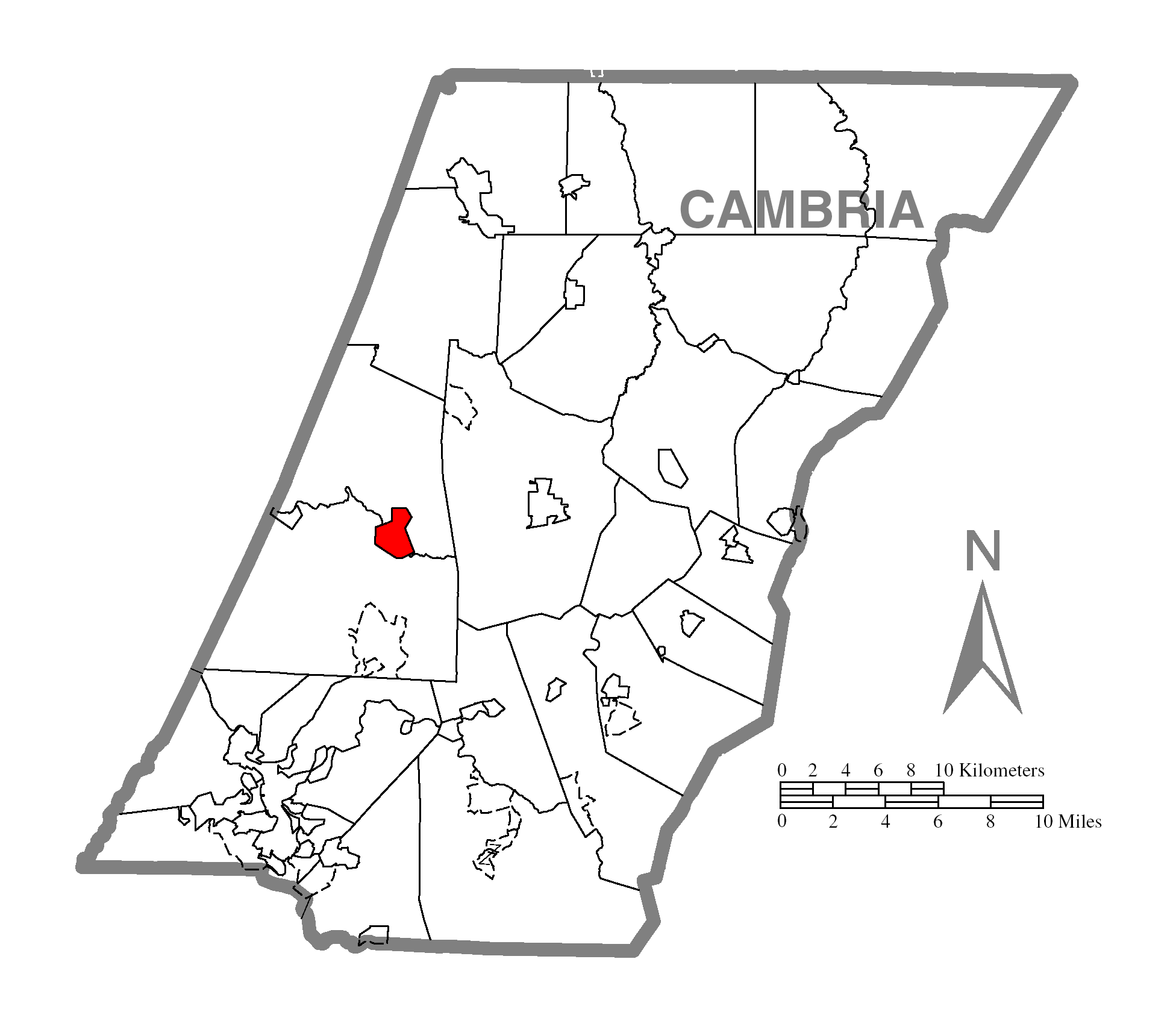 A map of Cambria County showing Nanty-Glo, Pennsylvania (alternate) highlighted on the map.